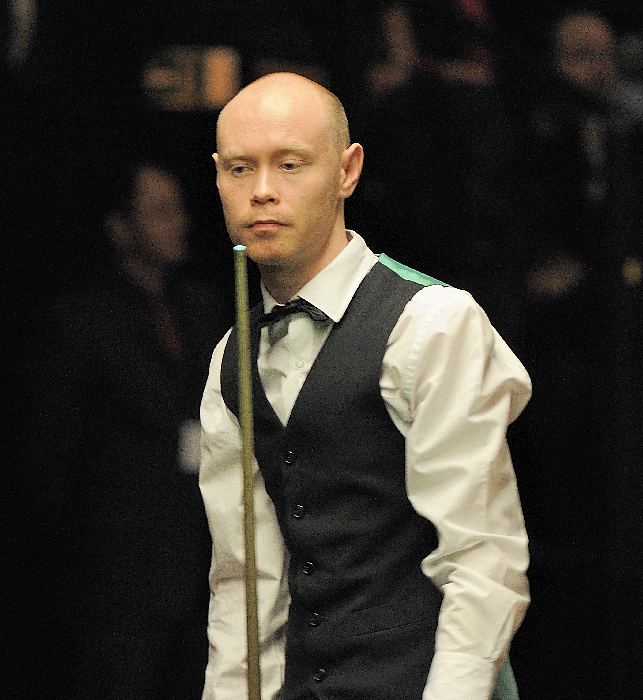 Picture taken in Berlin during the Snooker German Masters in 2014. Gary Wilson.